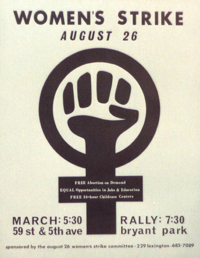 Title: Women's Strike, August 26 Physical description: 1 print ; (poster format) Notes: "1970" and "1971" pencilled on verso.; Published in: Prop art / Gary Yanker. New York : Darien House, 1972.; Gift; Gary Yanker; 1975-1983.; Title from item.